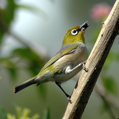 Bird, Silvereye, Zosterops lateralis.